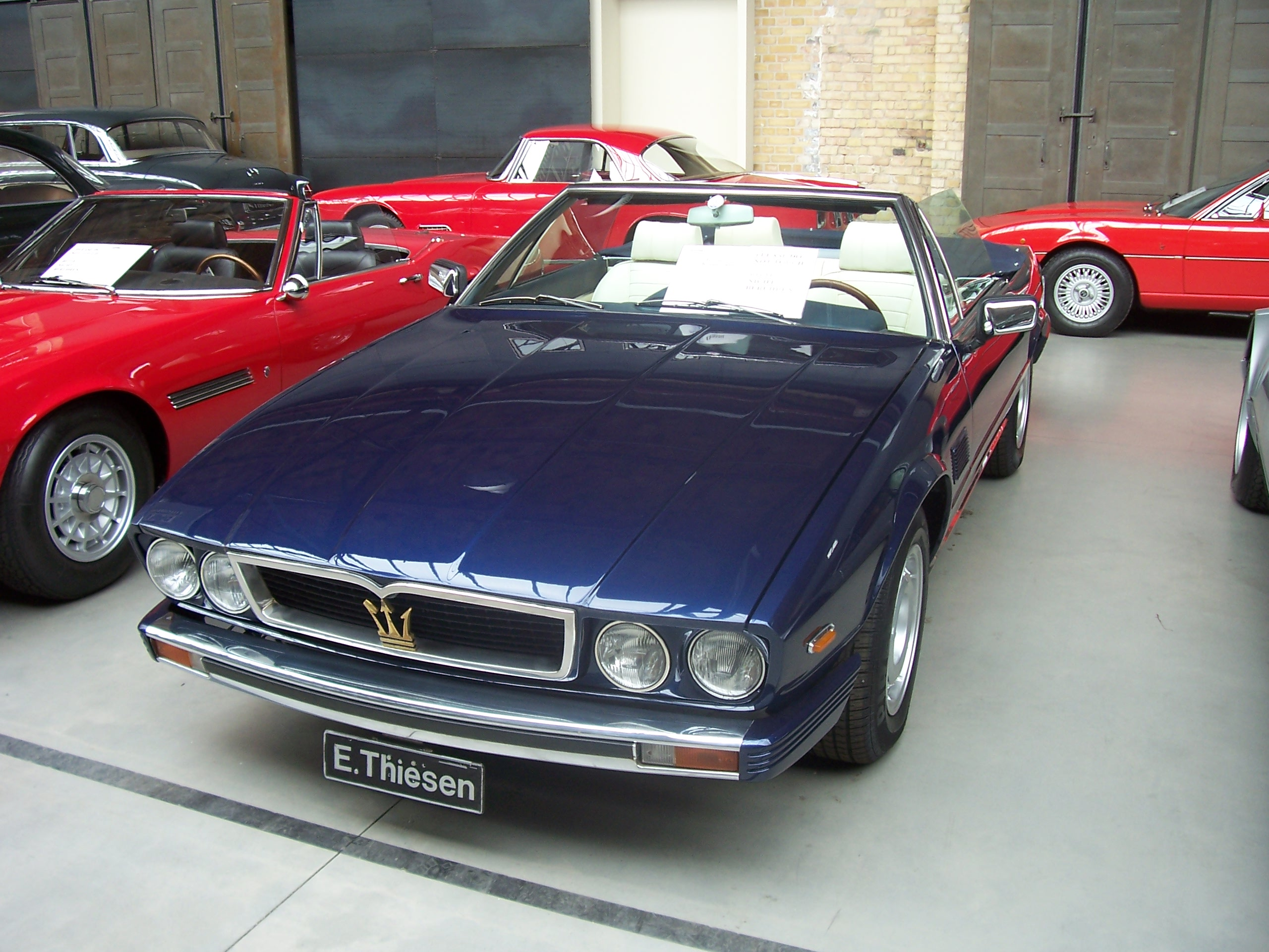 1978 Maserati Kyalami Spider